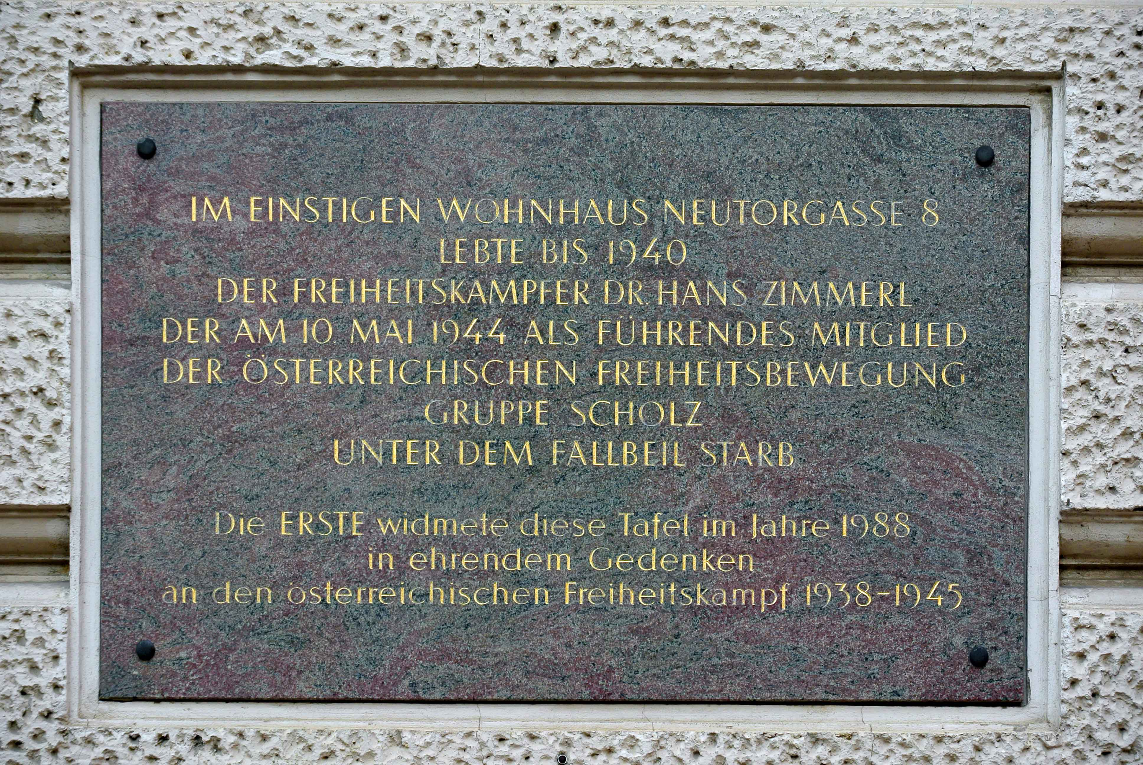 Dr. Hans Ferdinand Zimmerl (born 1.9.1912), associate, was beheaded on May 10, 1944 in the regional court of Vienna. He joined after the seizure of power by the National Socialists of the Catholic conservative "Austrian freedom movement" of the Augustiner Chorherren-Pater Roman Karl Scholz (Born January 16, 1912 in Moravian Schönberg – †may 10, 1944 in Vienna) and was one of the leading activists. Scholz itself was also beheaded in the regional court of Vienna. Plaque, Vienna,1., Neutorgasse 2